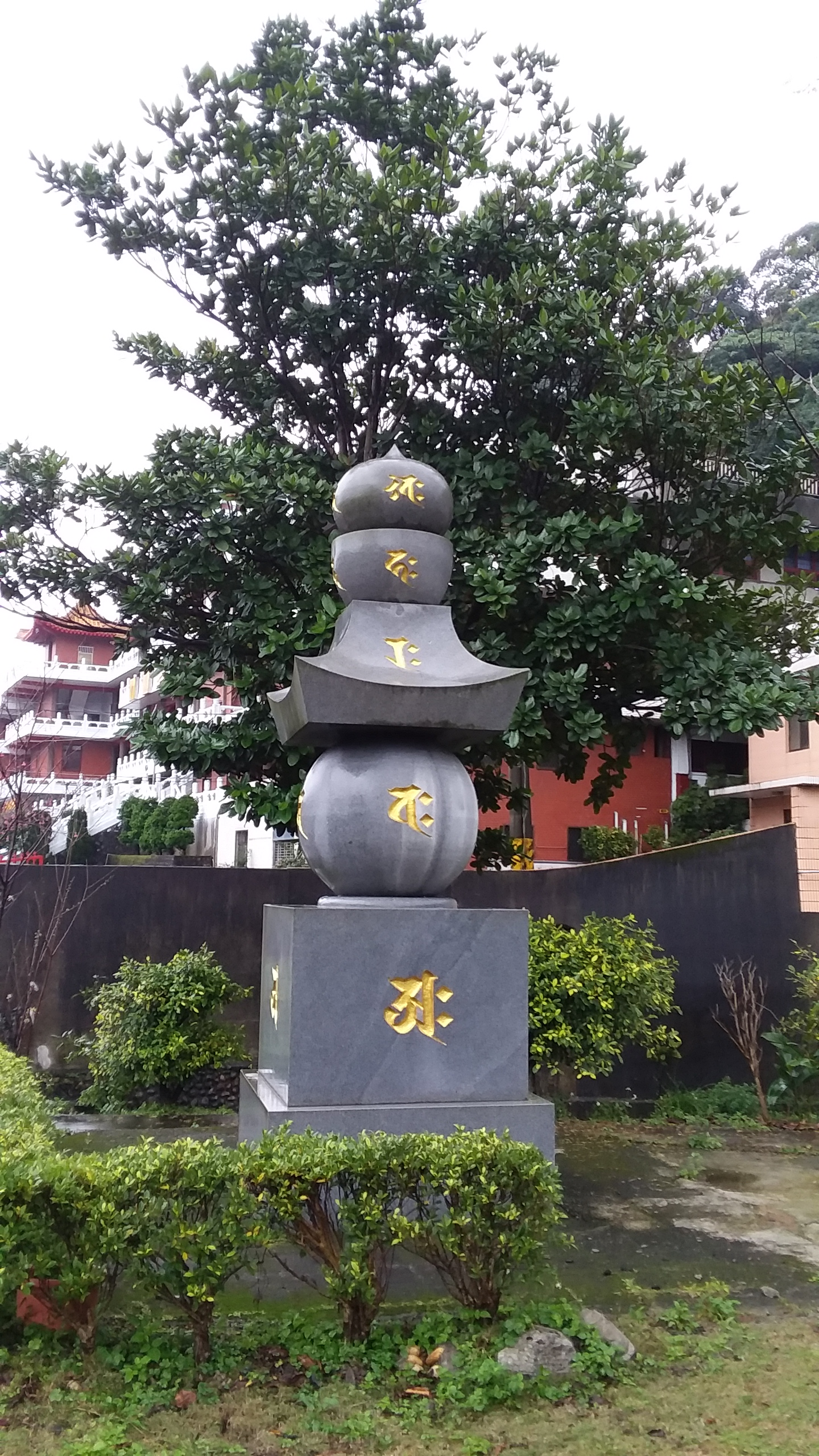 Five-ring pagoda